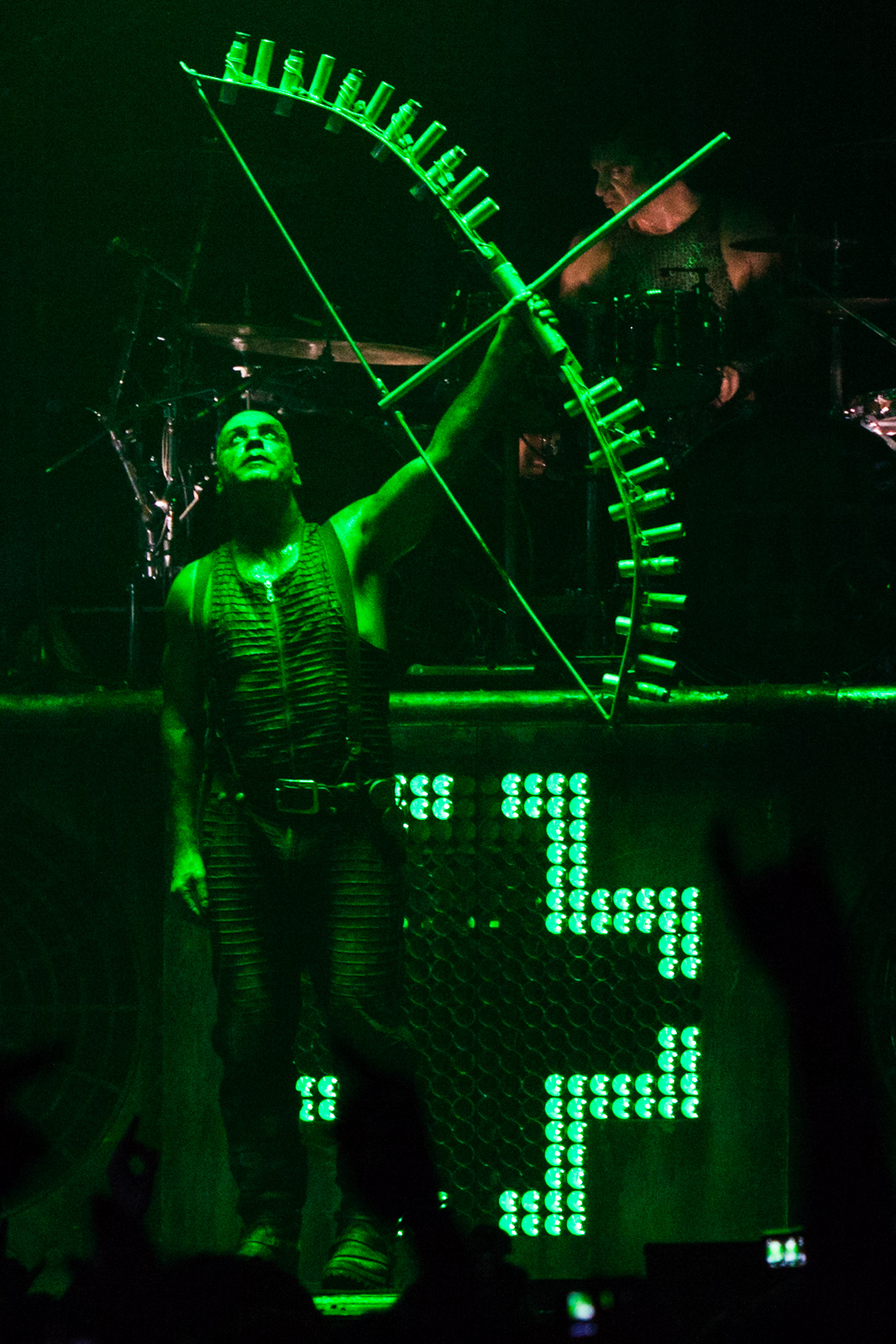 Till Lindemann during Rammstein's live performance of "Du riechst so gut" in London 24 February 2012